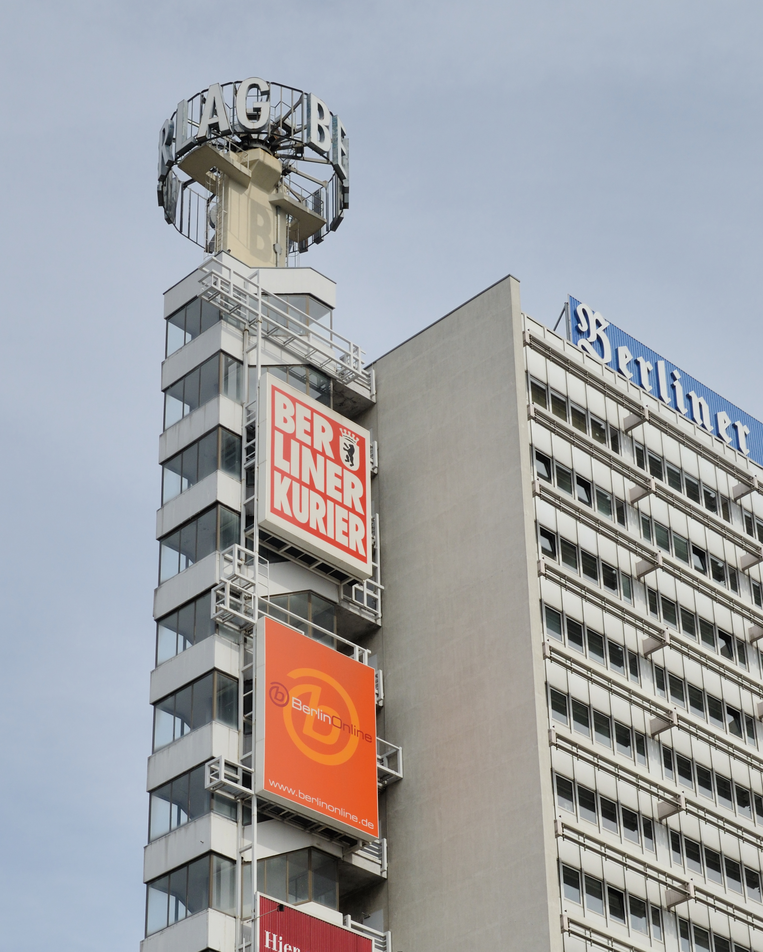 Berlin: publishing house of "Berliner Zeitung"